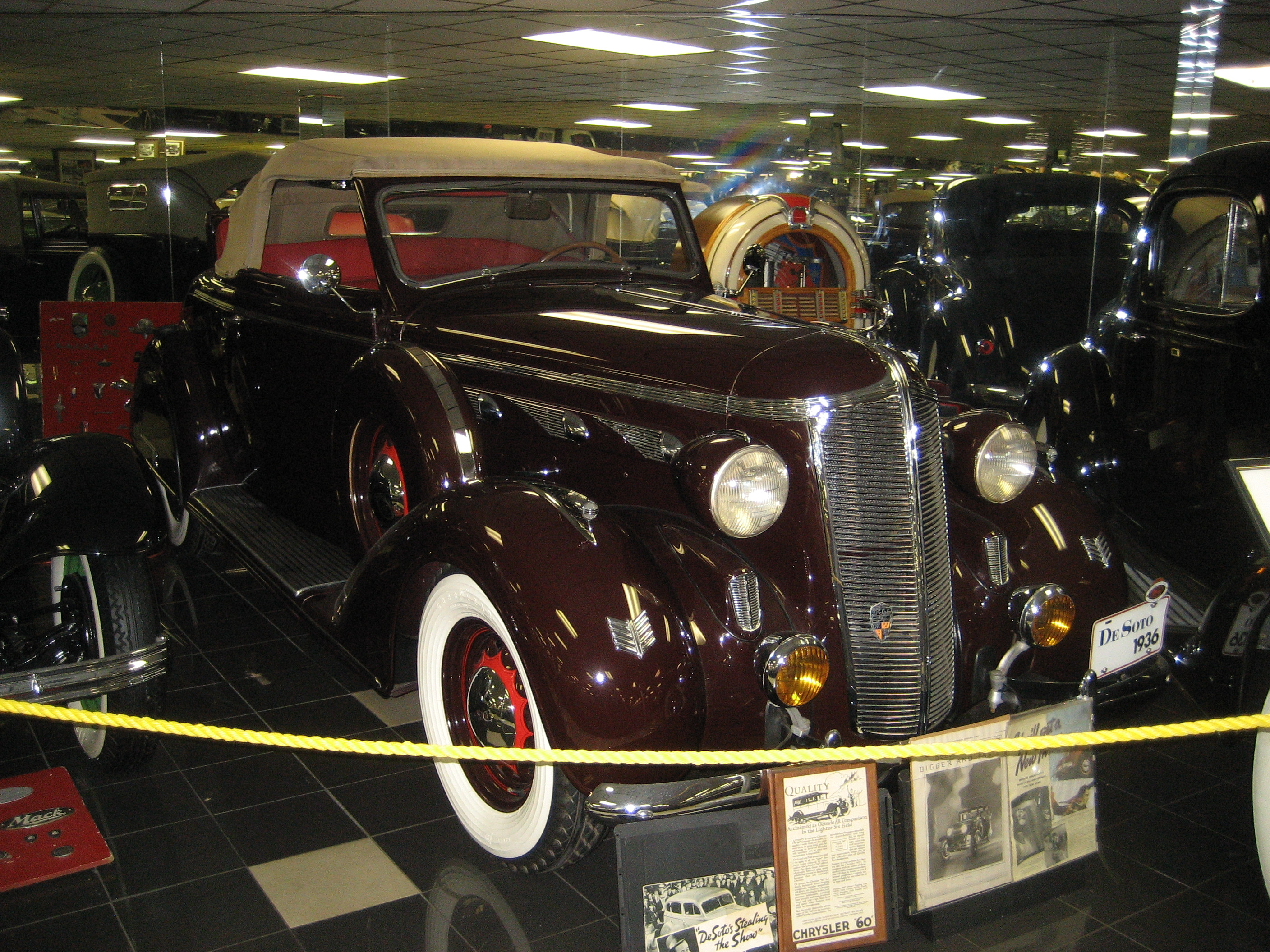 1936 De Soto Airstream on display at Tallahassee Automobile Museum.